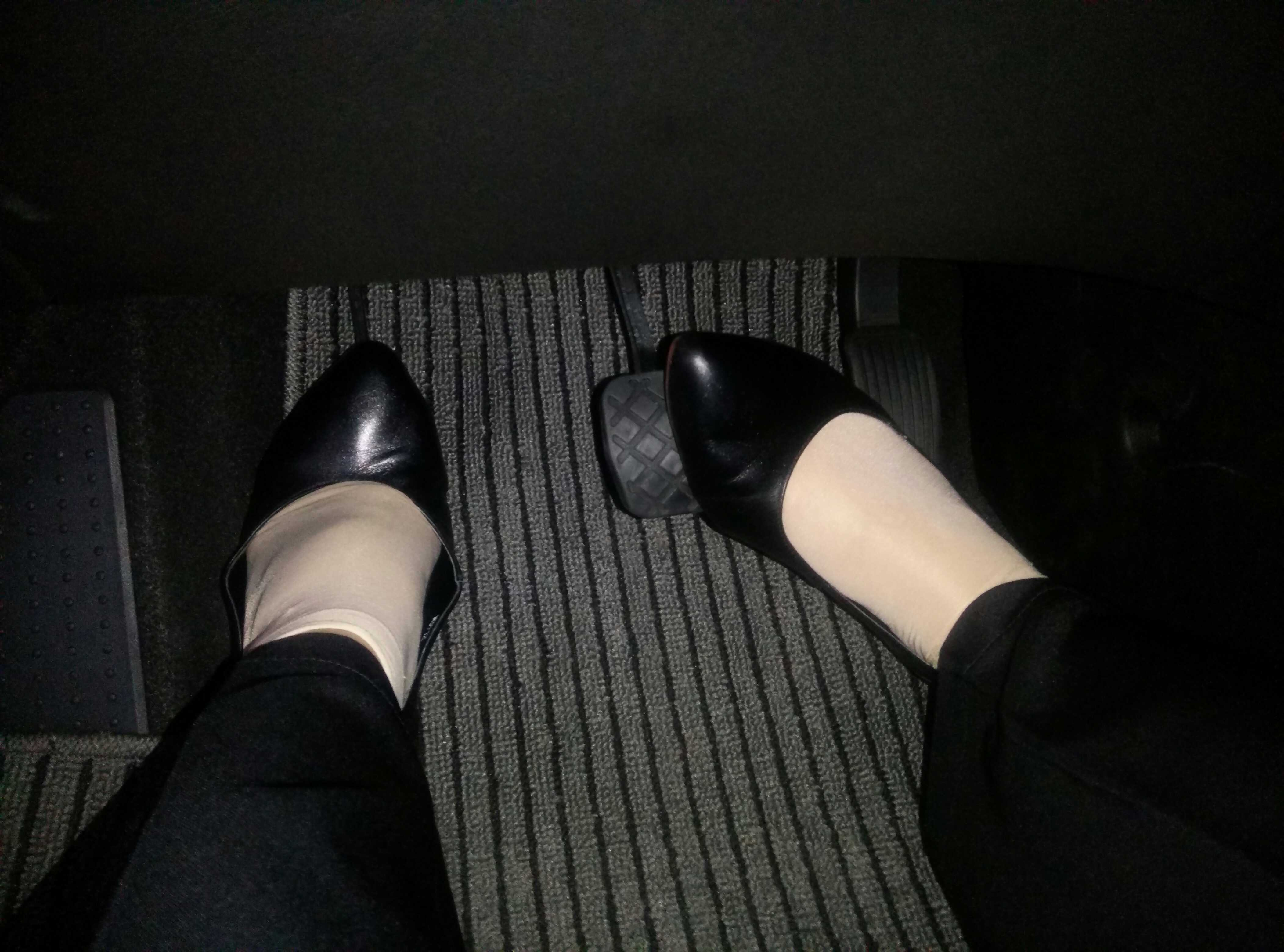 a girl doing heel toe when car stopped